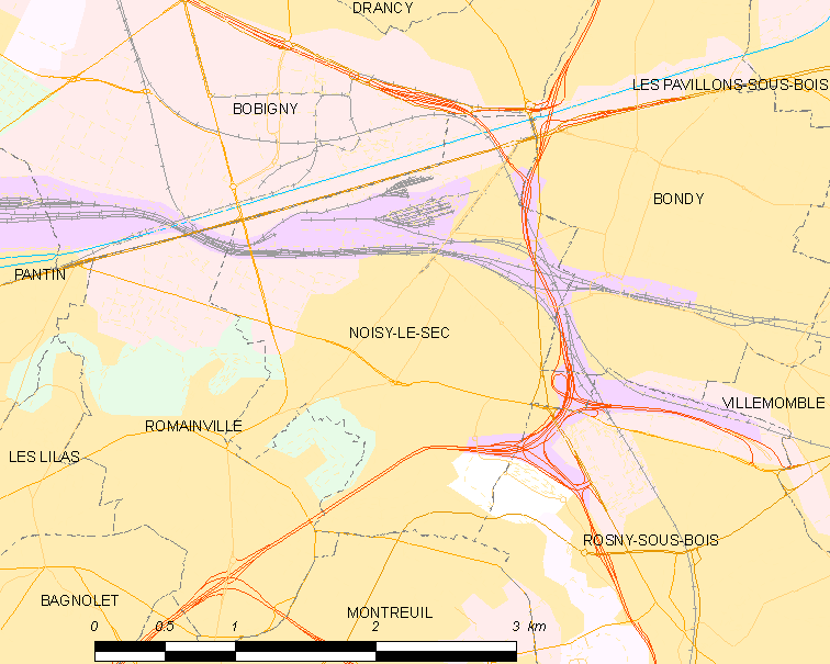 Map of French municipality Noisy-le-Sec